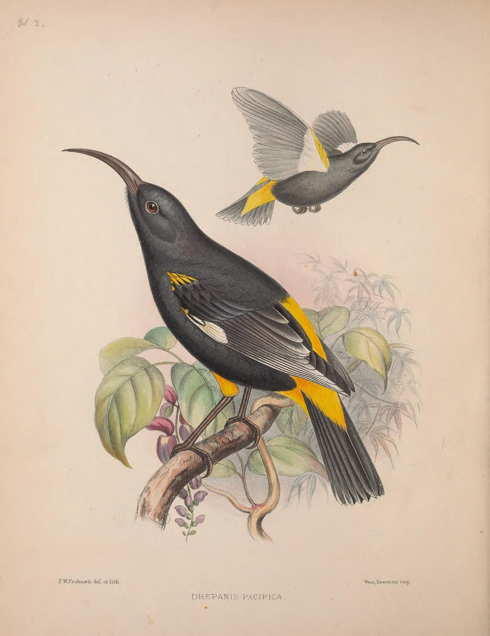 F.WFroWwkdfil.etlith. DREPANIS PACIFIQA